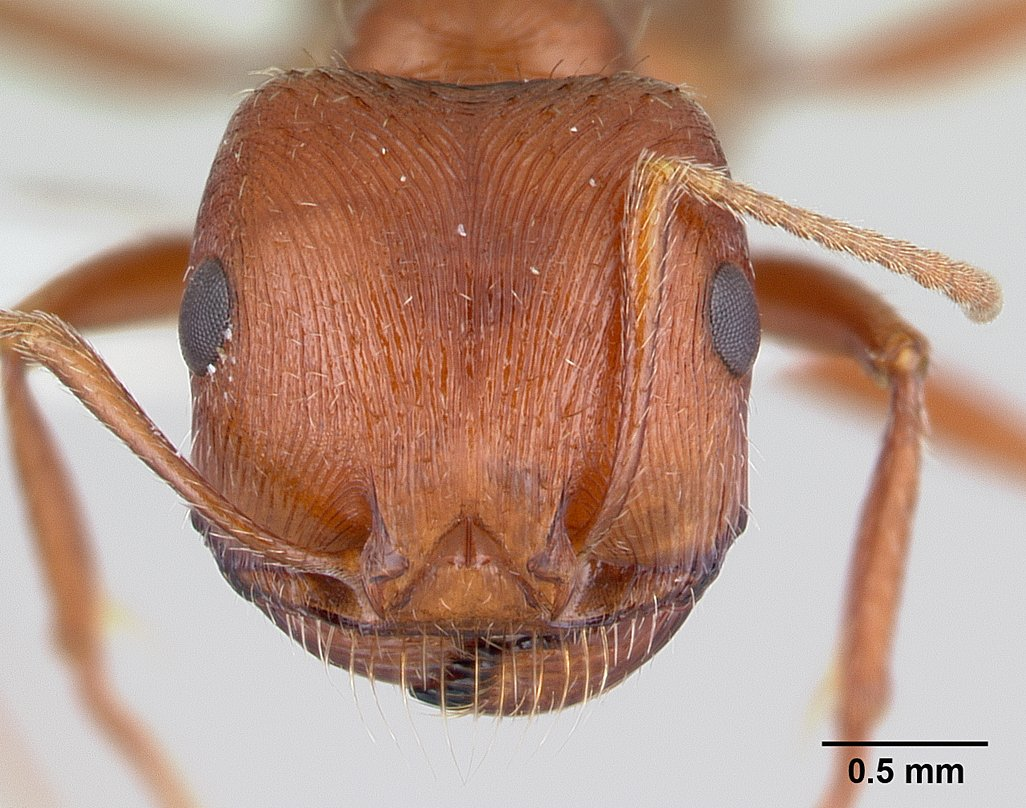 Head view of ant Pogonomyrmex anzensis specimen casent0179510.